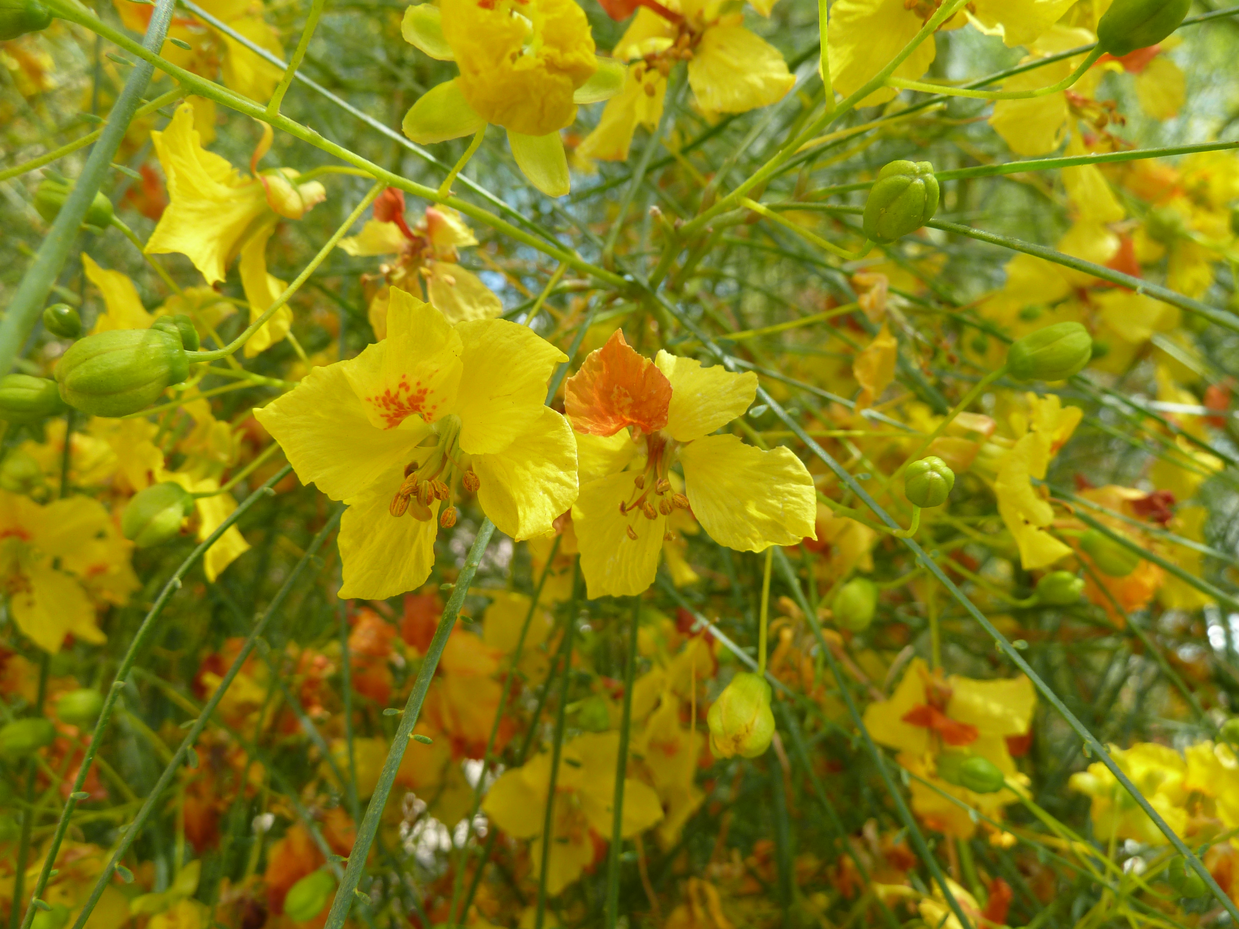 Parkinsonia aculeata in a front garden in San Diego. So pretty, but it turns out it's invasive in Australia, parts of tropical Africa, Hawaii, and other Islands in the Pacific Ocean (Wikipedia). Common names include Jerusalem Thorn and Jellybean Tree. Someone answered my ID query on the UBCBG Forums.